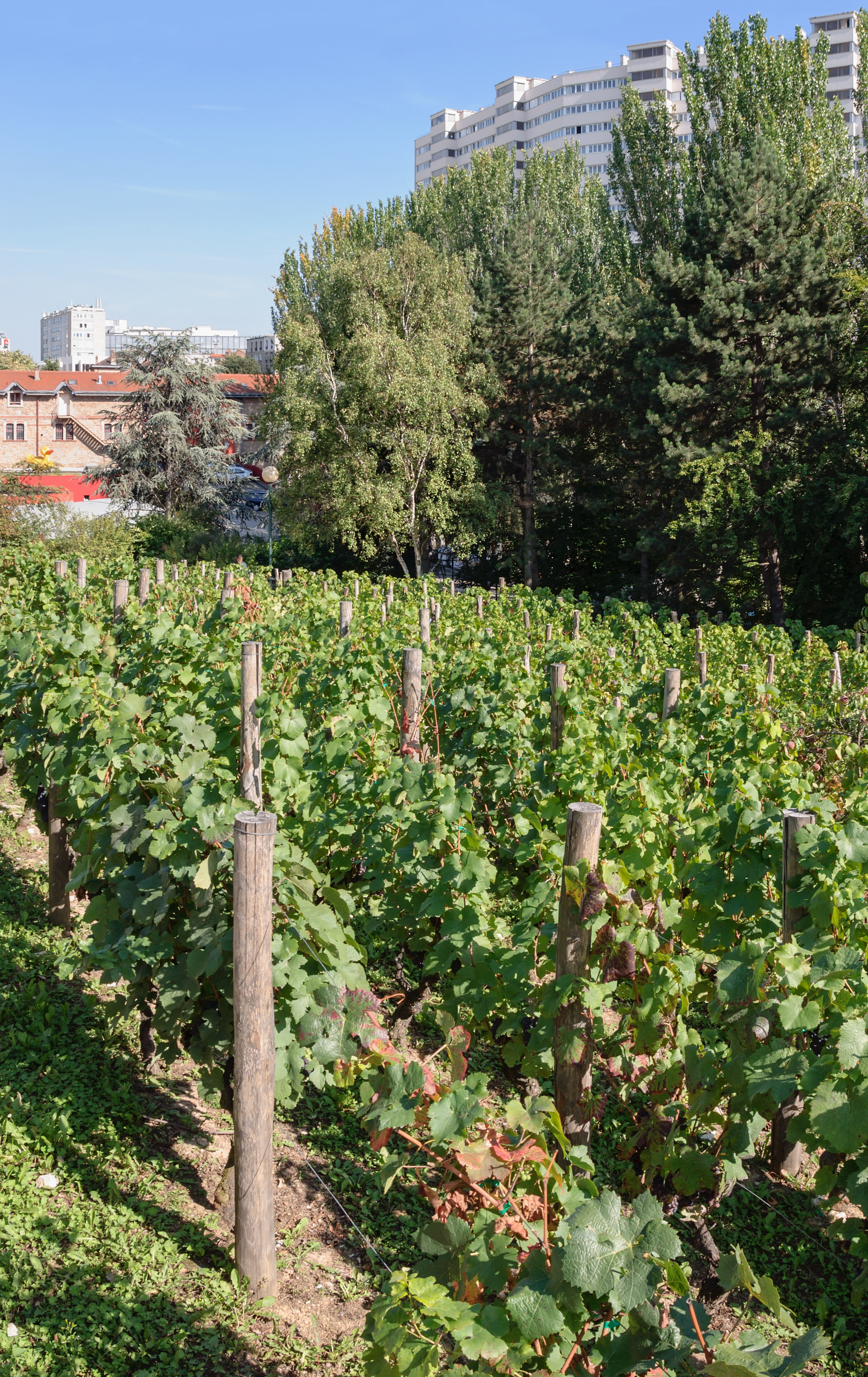 Georges-Brassens Park vineyard, 15th arrondissement of Paris, France.